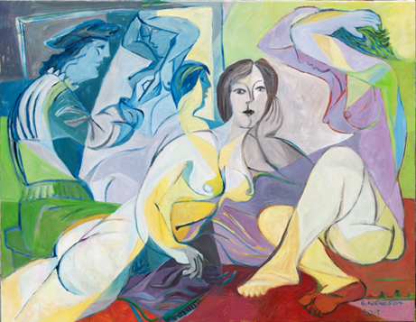 Painting by Georg Königstein